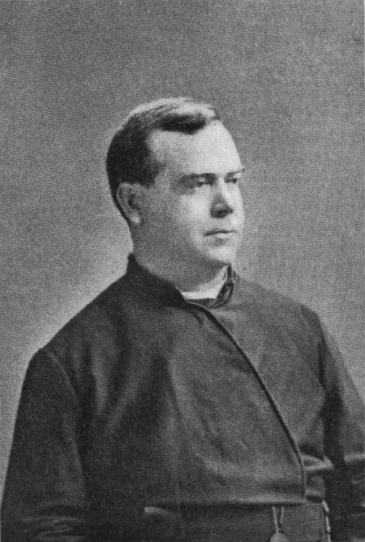 Portrait of Rev. Cornelius Gillespie, S.J., president of Gonzaga College in Washington, D.C.